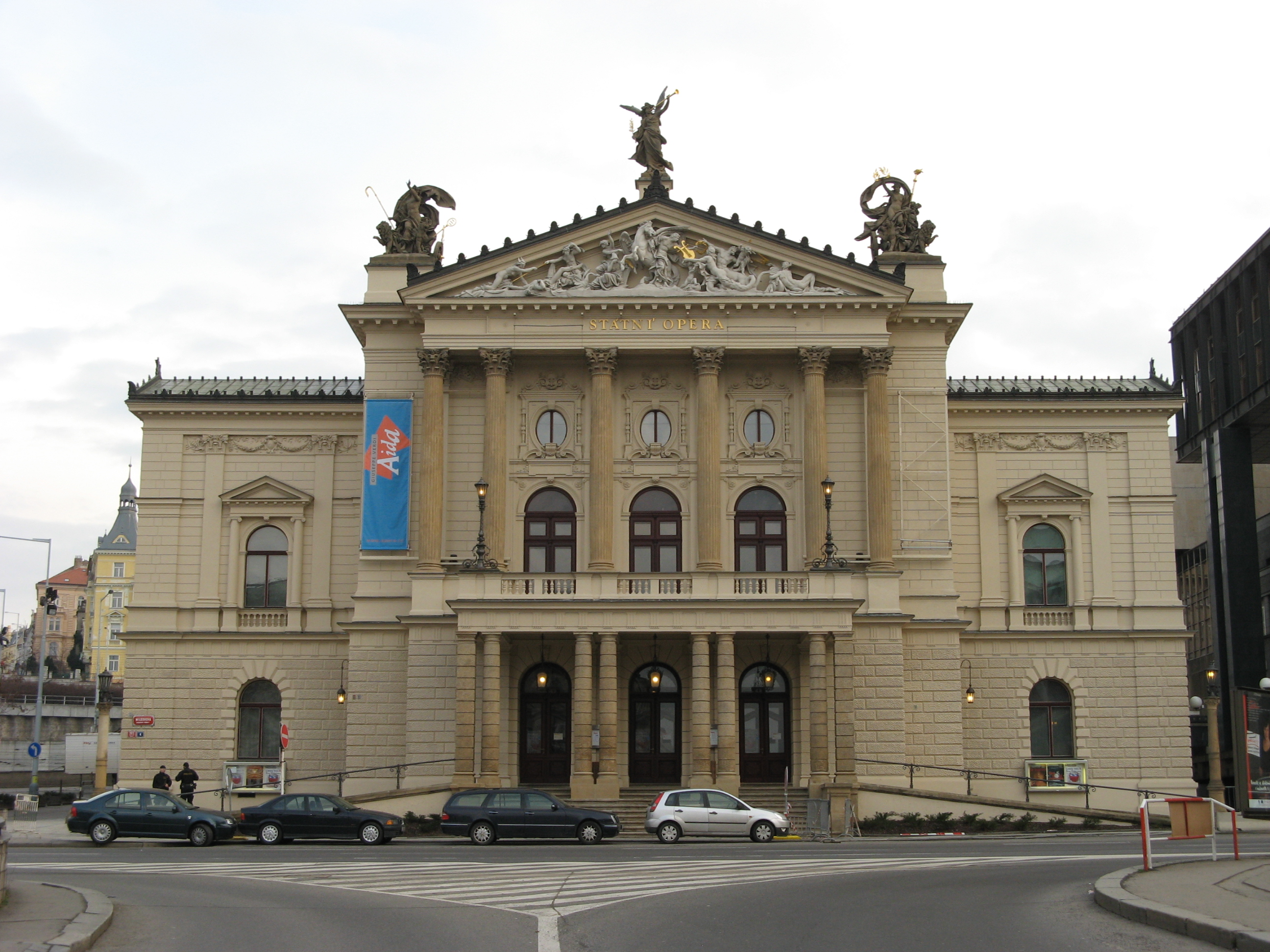 State Opera in Prague